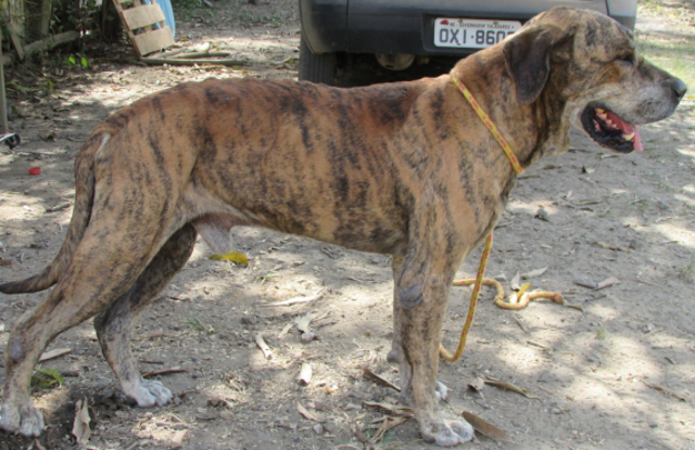 Brindle Original Fila Brasileiro dog, adult male.